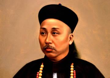 Sir Boshan Wei-Yuk, Kt., C.M.G., J.P. (1849 - 1921), Chinese Unofficial Member of the Legislative Council of Hong Kong (1896 - 1917).